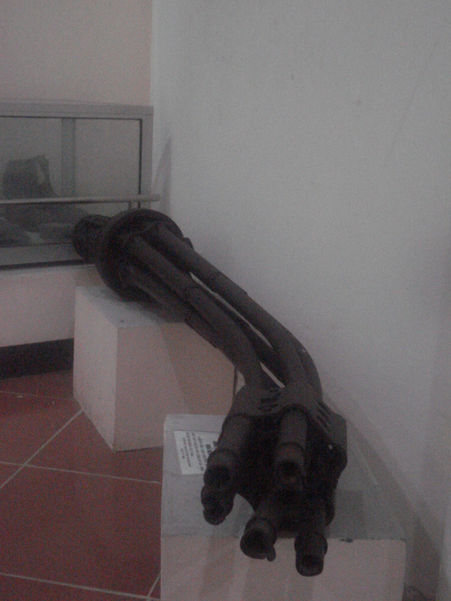 The remain of M61 Vulcan shown in Museum of Vietnamese Military History - Ha Noi